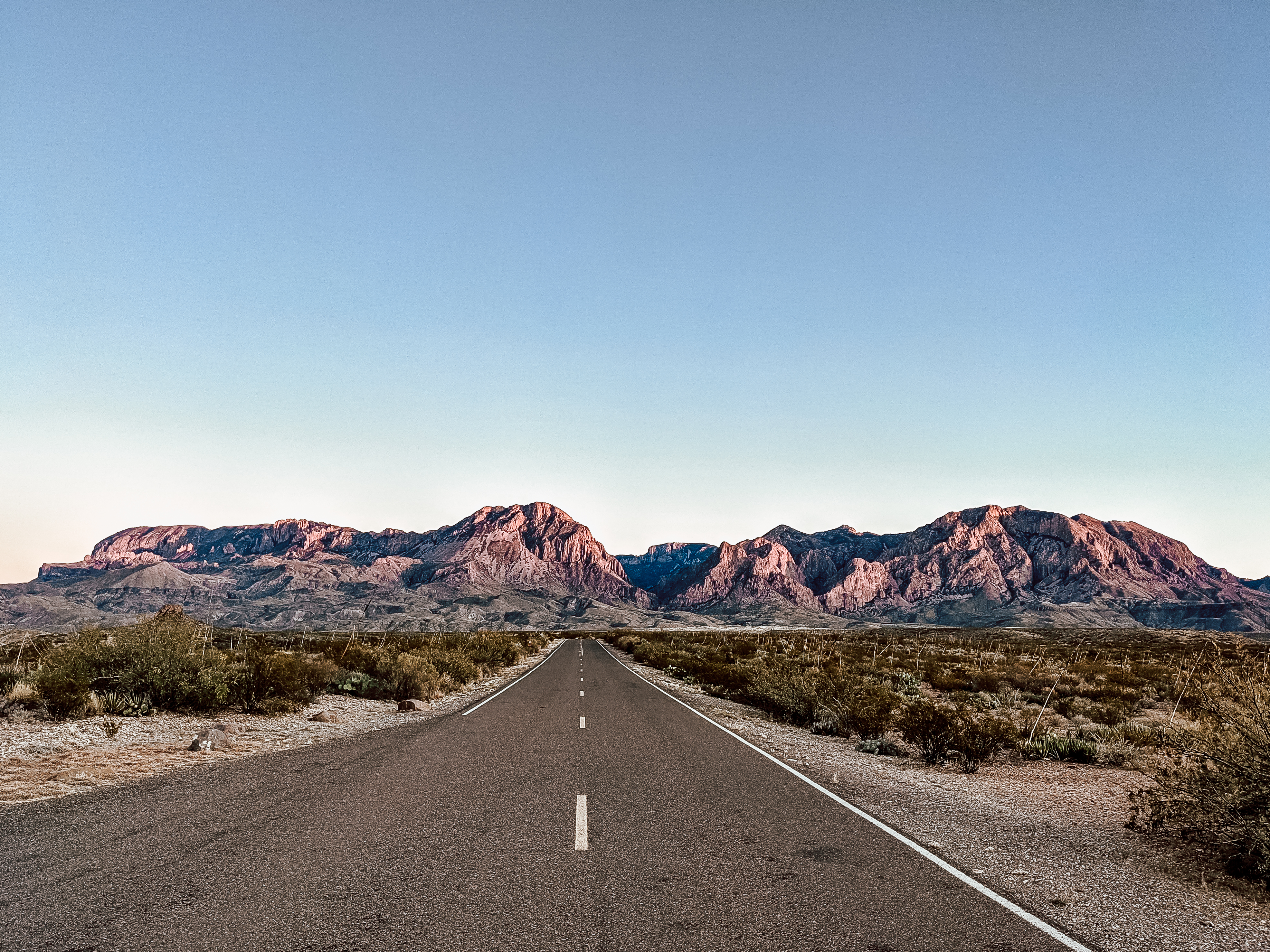 The Chisos Mountains as photographed facing southeast. The entirety of the Chisos Mountains are contained within Big Bend National Park in Texas. Photo taken during sunset on December 30th, 2019 by Will Roman, Owner of the Chisos Boot Company.